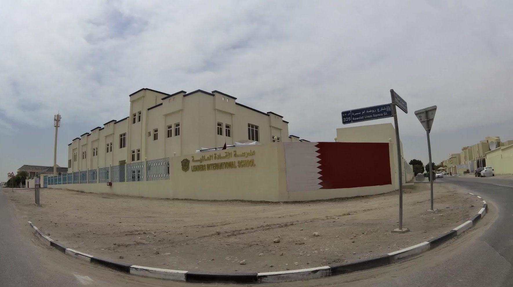 Leaders International School on Rawdat Umm Samra St in Ain Khaled, Al Rayyan Municipality, Qatar.